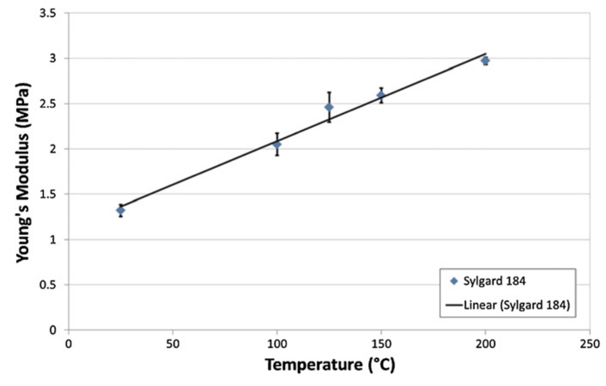 Taken from a OpenSource paper, figure is important to understand mechanical property of PDMS